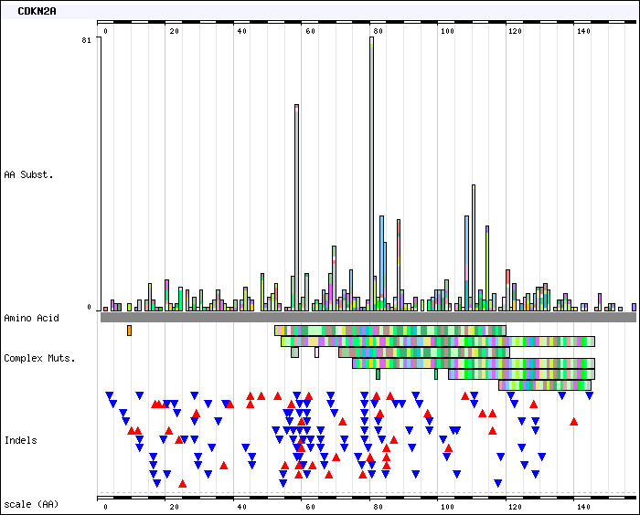 This image was obtained from the COSMIC cancer database. A public domain database. It shows mutation data for the CDKN2A gene. Further information can be found here.